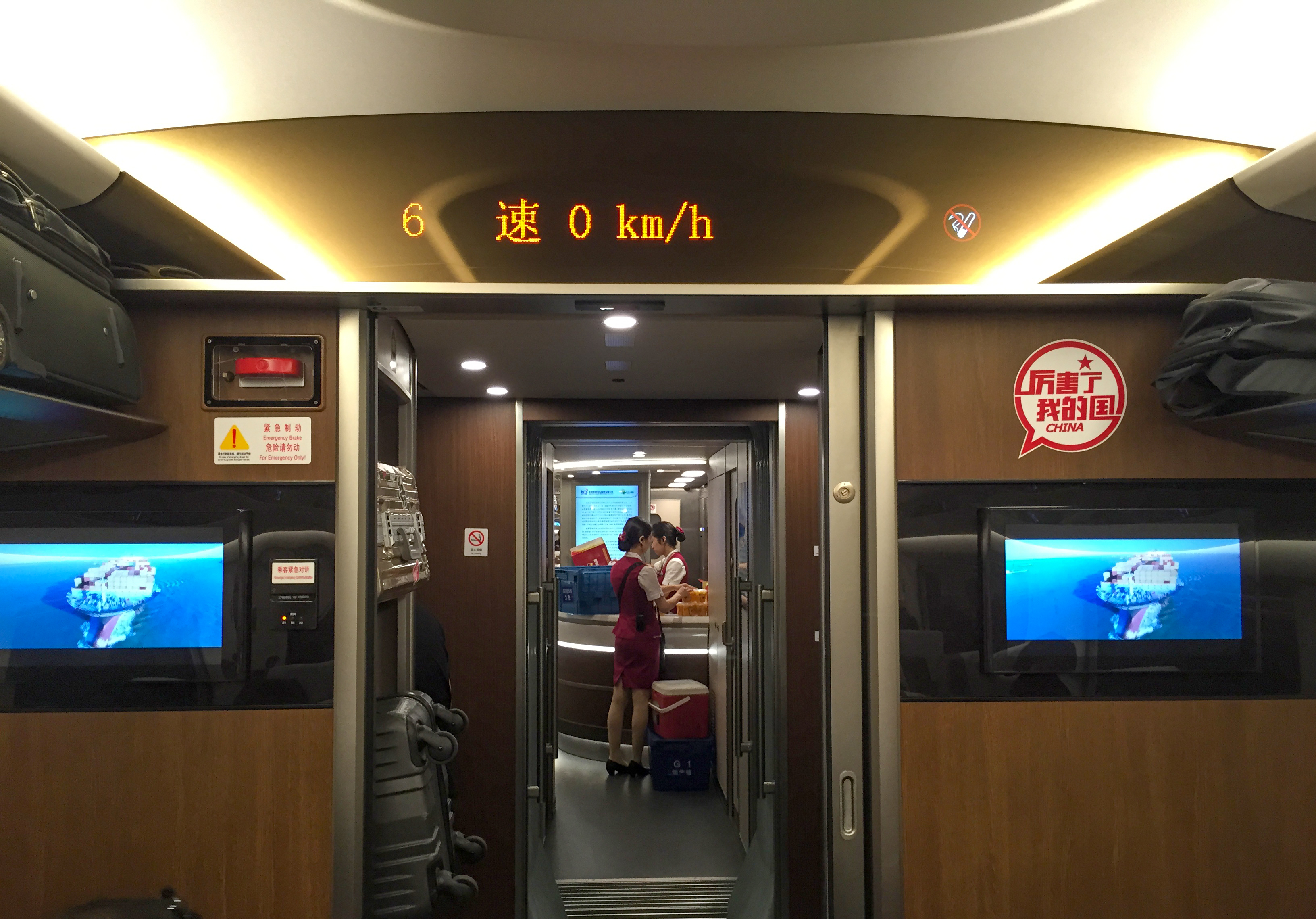 G1 to Shanghai Hongqiao.